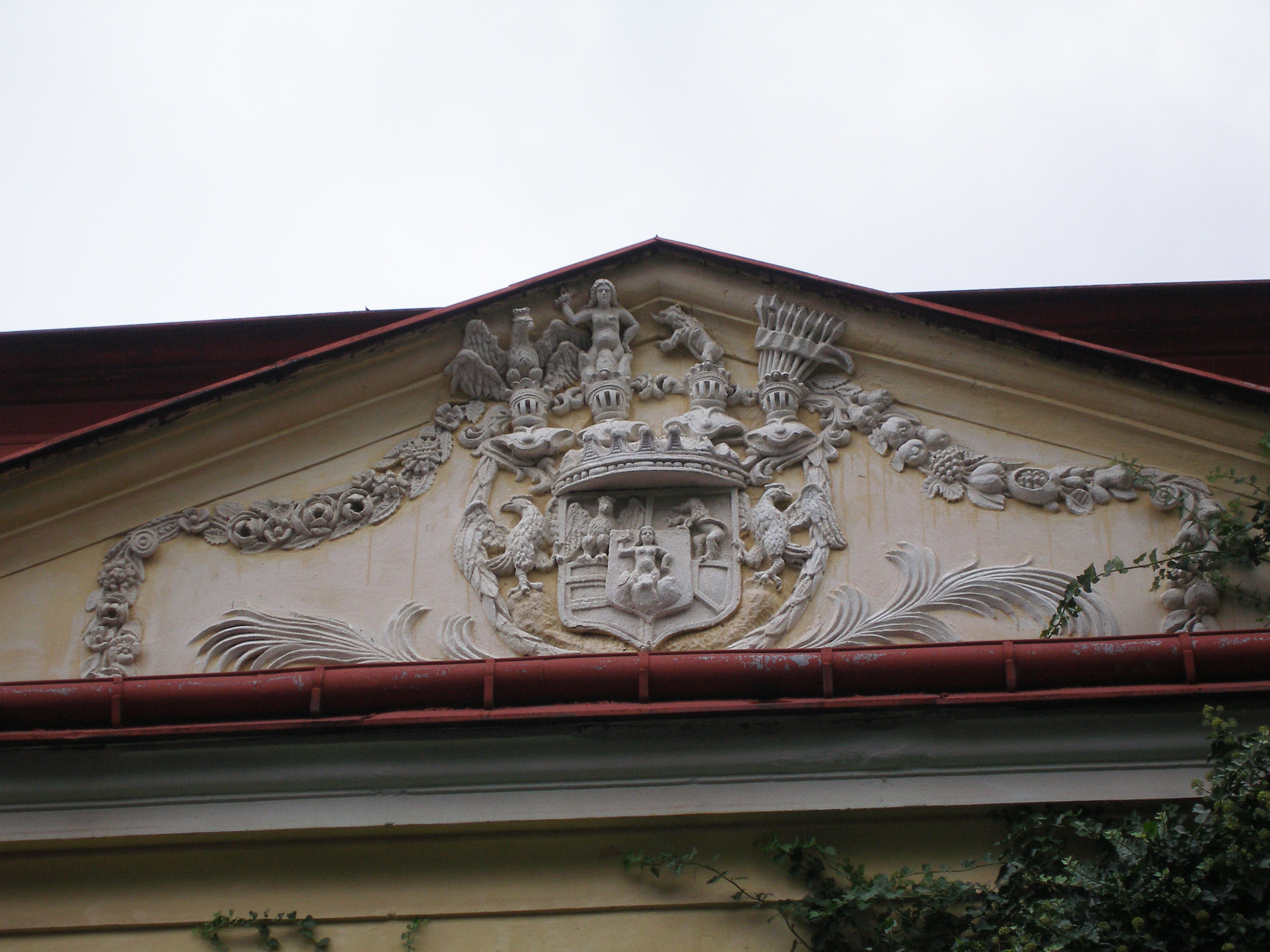 Palace, detail of heraldry, Lazne Libverda., Czech Republic